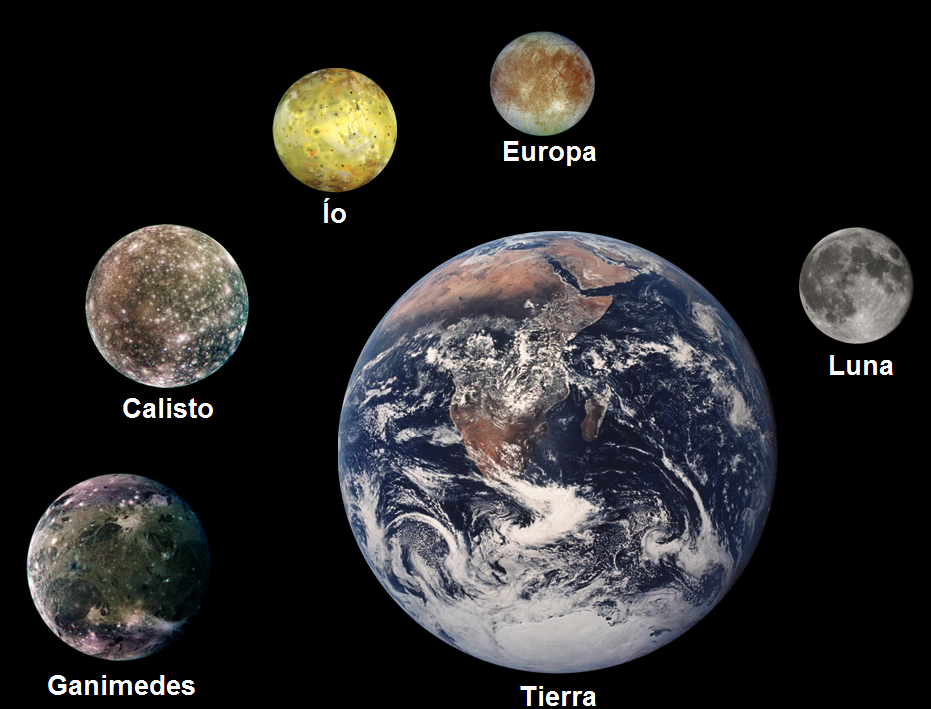 Galilean satellites, in comparation with the Earth and the Moon.